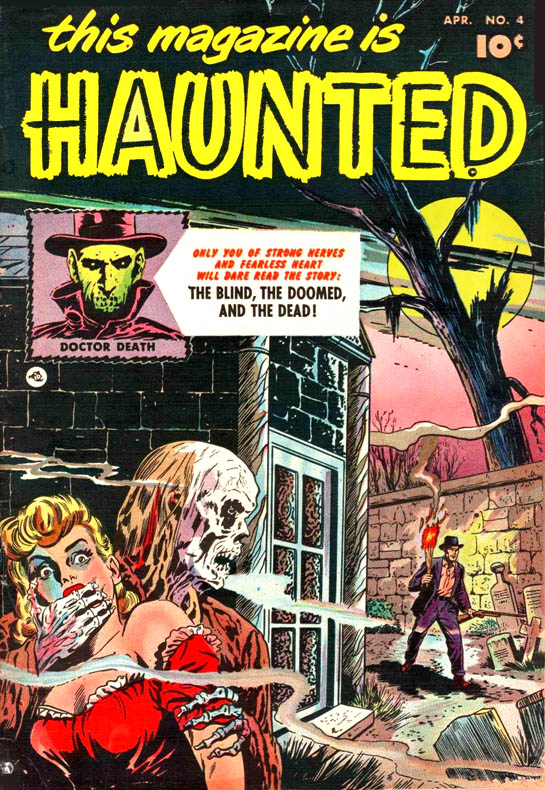 Cover of This Magazine is Haunted # 4, published by published by Fawcett Comics (April 1952). Artwork by Sheldon Moldoff.